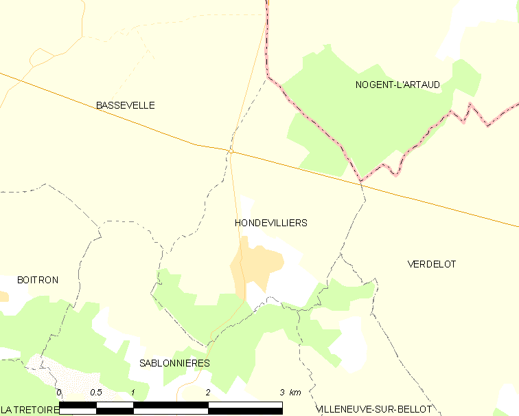 Map of French municipality Hondevilliers